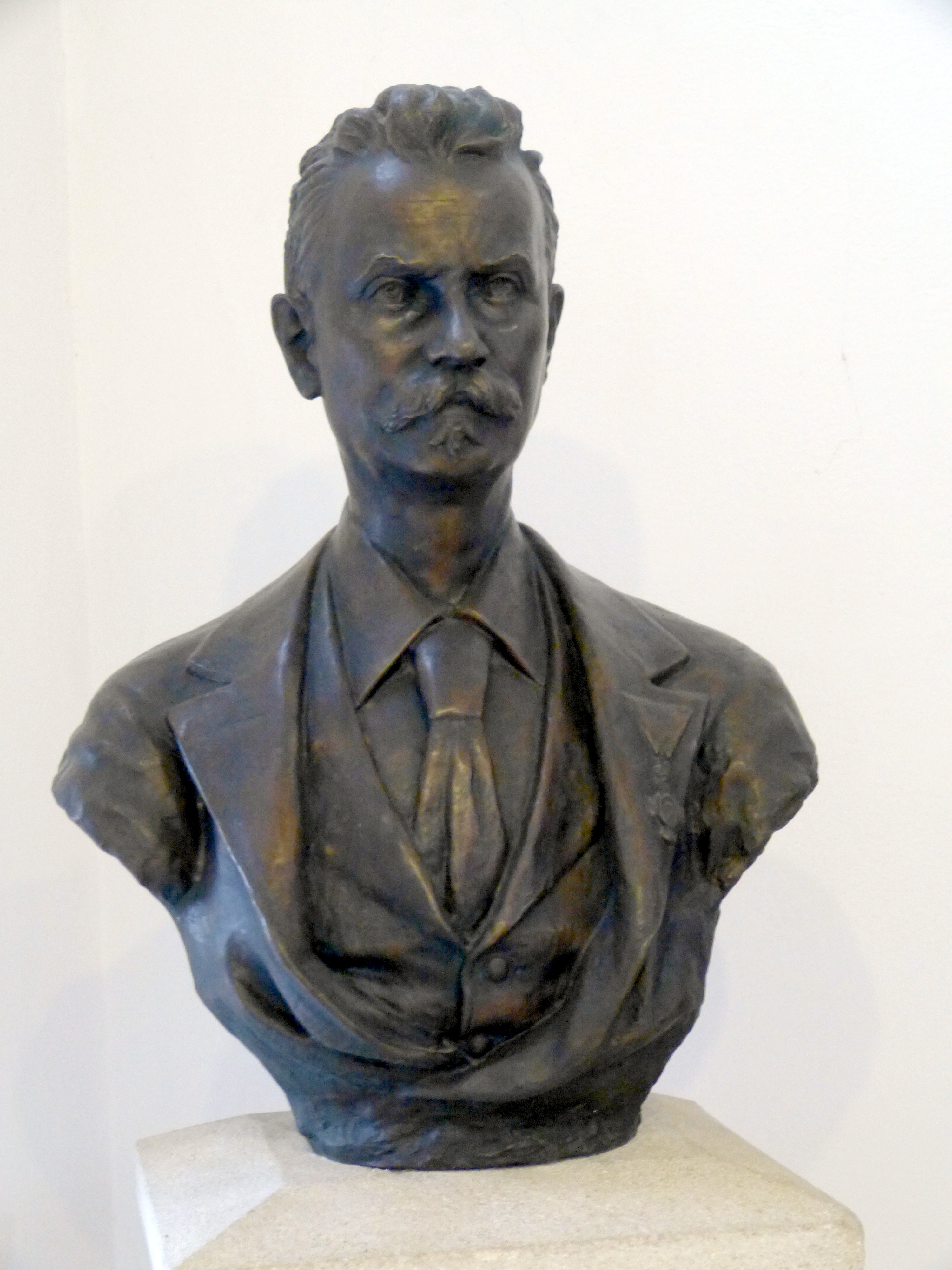 Eggenburg ( Lower Austria ). Krahuletz-Museum: Bust of Johann Krahuletz ( 1848-1928 ), Austrian geologist and archaeologist.